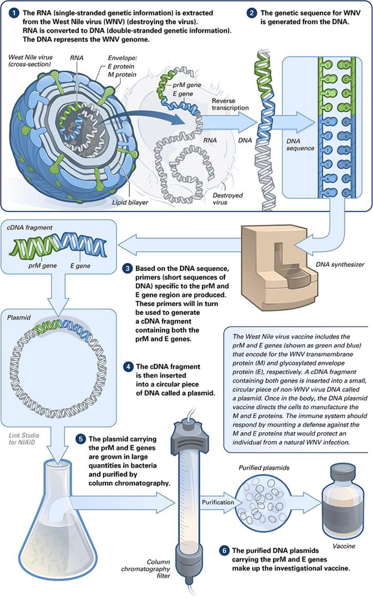 DNA vaccines are composed of a small, circular piece of DNA — called a DNA plasmid — that contains genes that code for proteins of a pathogen. When the vaccine is injected into the host, the inner machinery of the host cells “reads” the DNA and converts it into proteins from the pathogen. Recognizing that the proteins are foreign, the cells display them on their surface to alert the body’s immune system — both helper T cells, which spur the production of antibodies, and killer T cells, which kill infected cells outright.